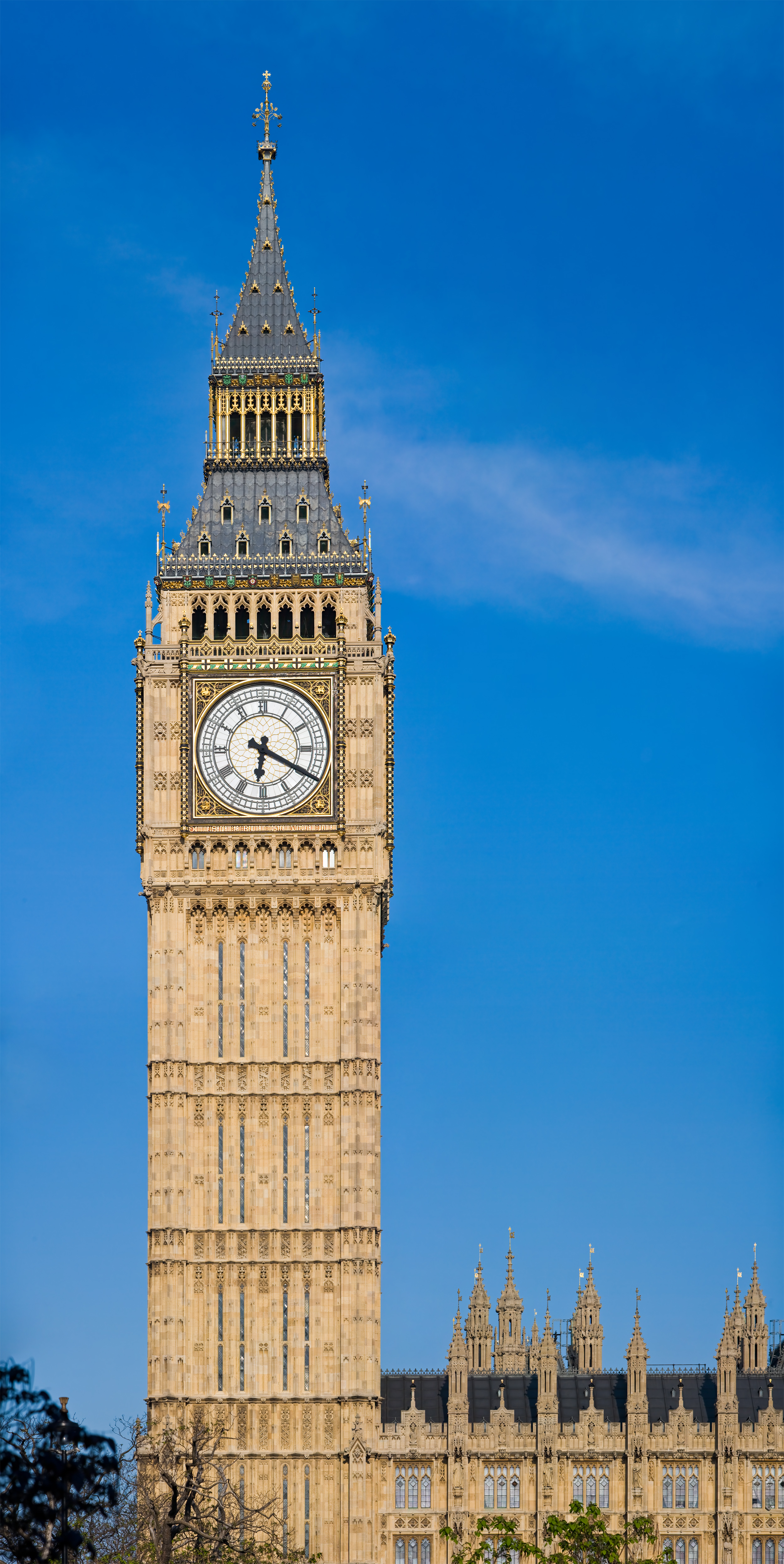 The Clock Tower of the Palace of Westminster, colloquially known as "Big Ben", in Westminster, London, England.